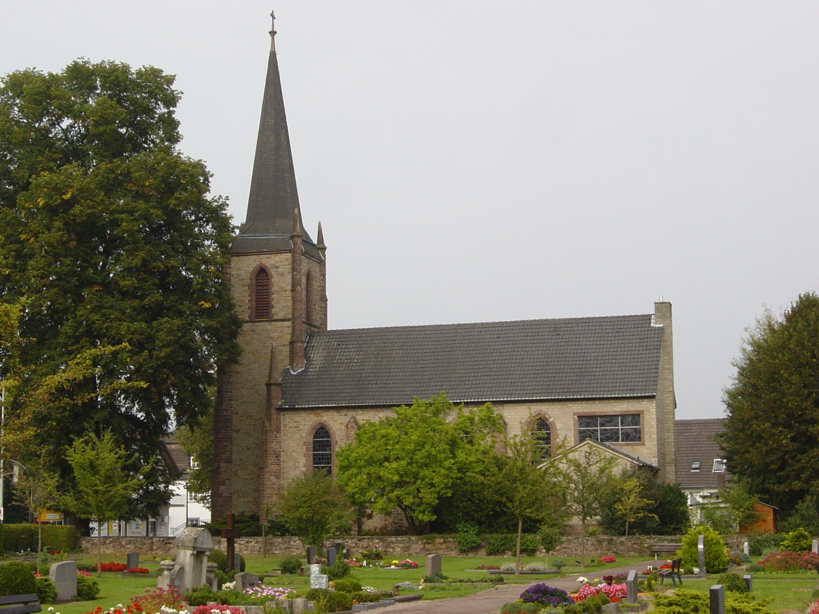 Protestant church Beverungen (Germany)